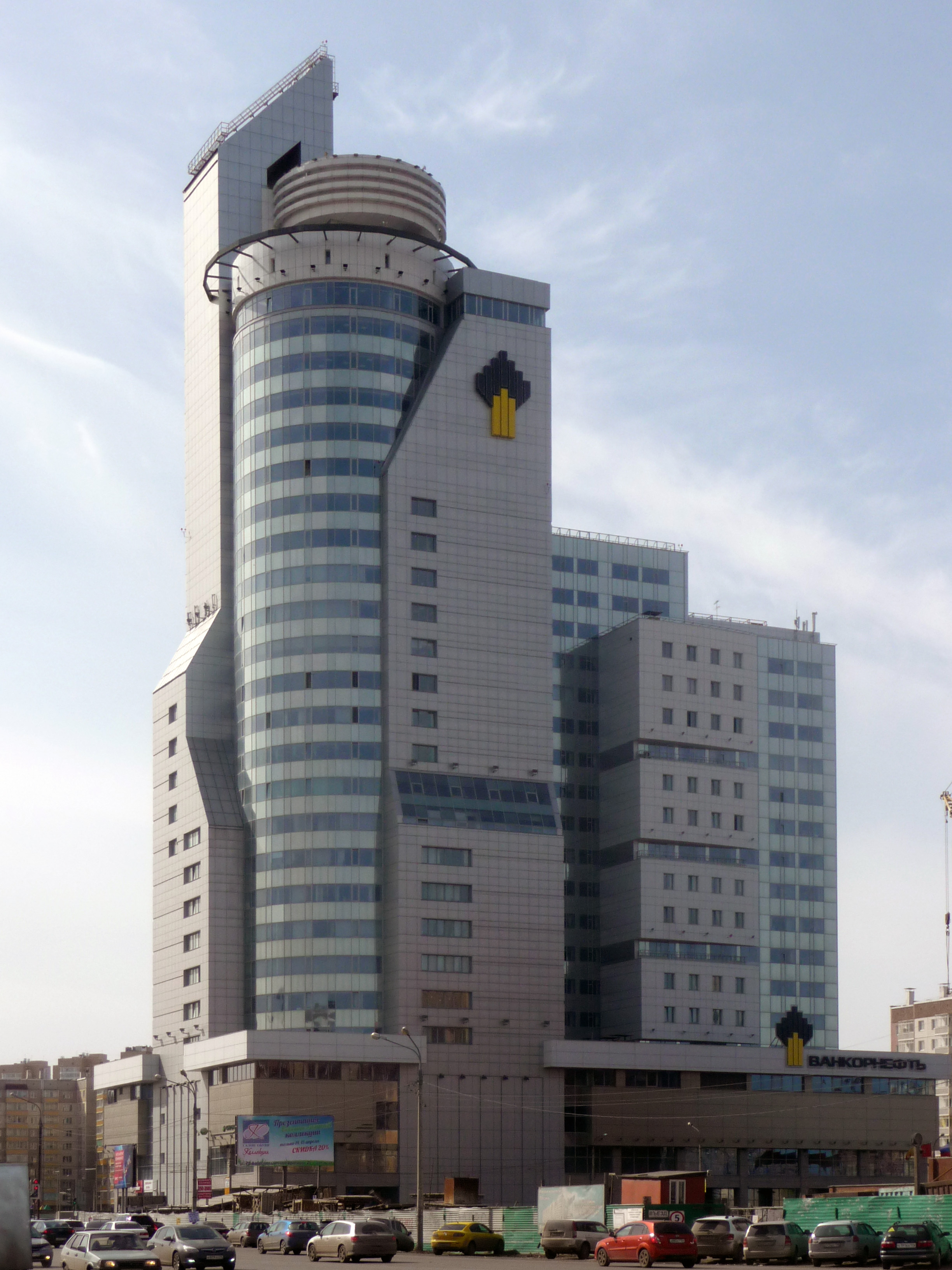 high-rise office building in Krasnoyarsk, highest building in Krasnoyarsk since 2009